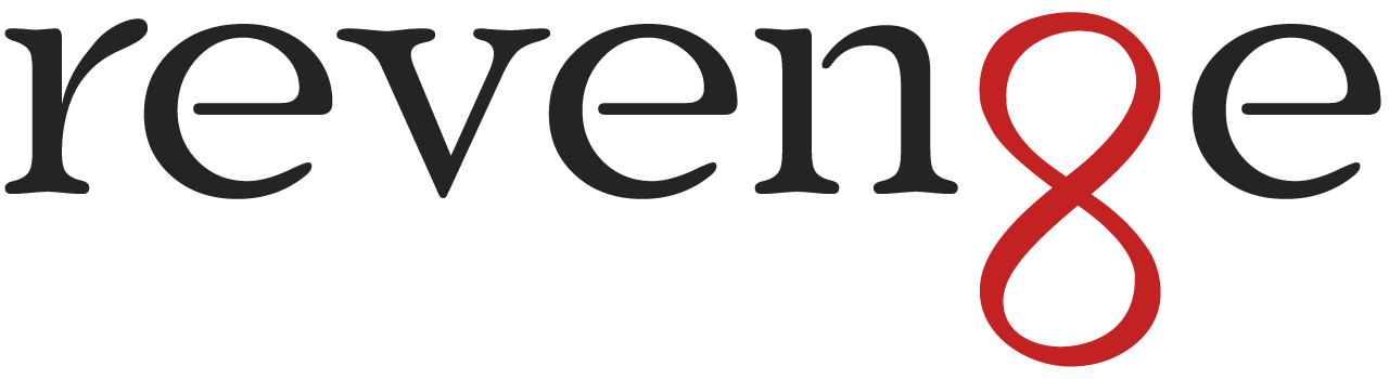 Original logo used for the promotion of the television series Revenge